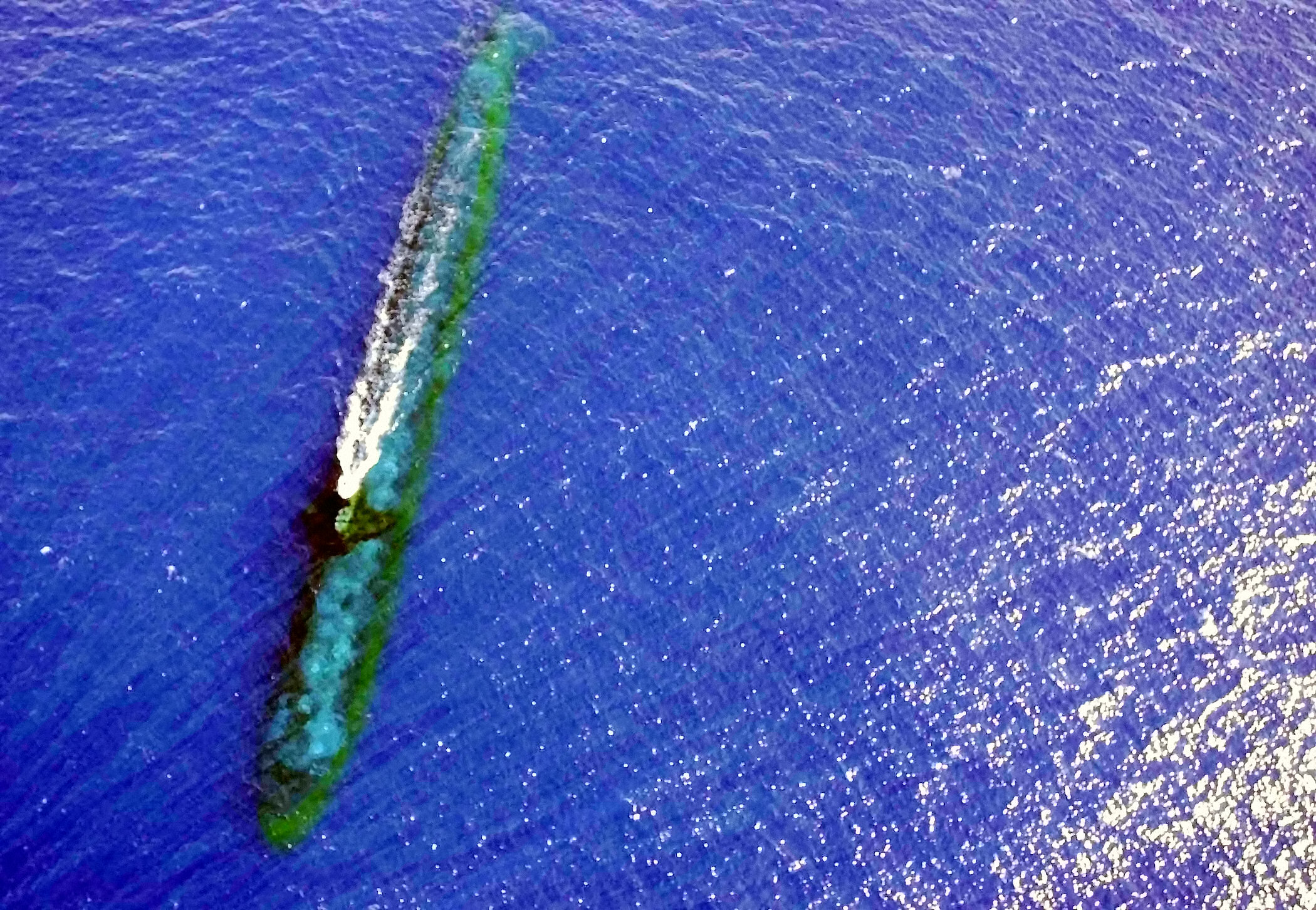 010724-N-6077T-007 The Western Pacific Ocean (Jul. 24, 2001) -- The Los Angeles Class Attack submarine USS Chicago (SSN 721) completes a training maneuver off the coast of Malaysia. Malaysian and U.S. Navy ships and submarines participated in a war at sea exercise as part of the seventh annual Cooperation Afloat Readiness and Training (CARAT) 2001 exercise. CARAT, a series of bilateral exercises, takes place throughout the Western Pacific each summer with the goal of increasing regional cooperation and promoting interoperability with each country.